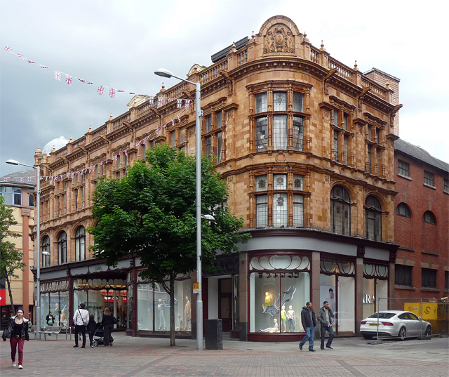 10 Pelham Street, Nottingham